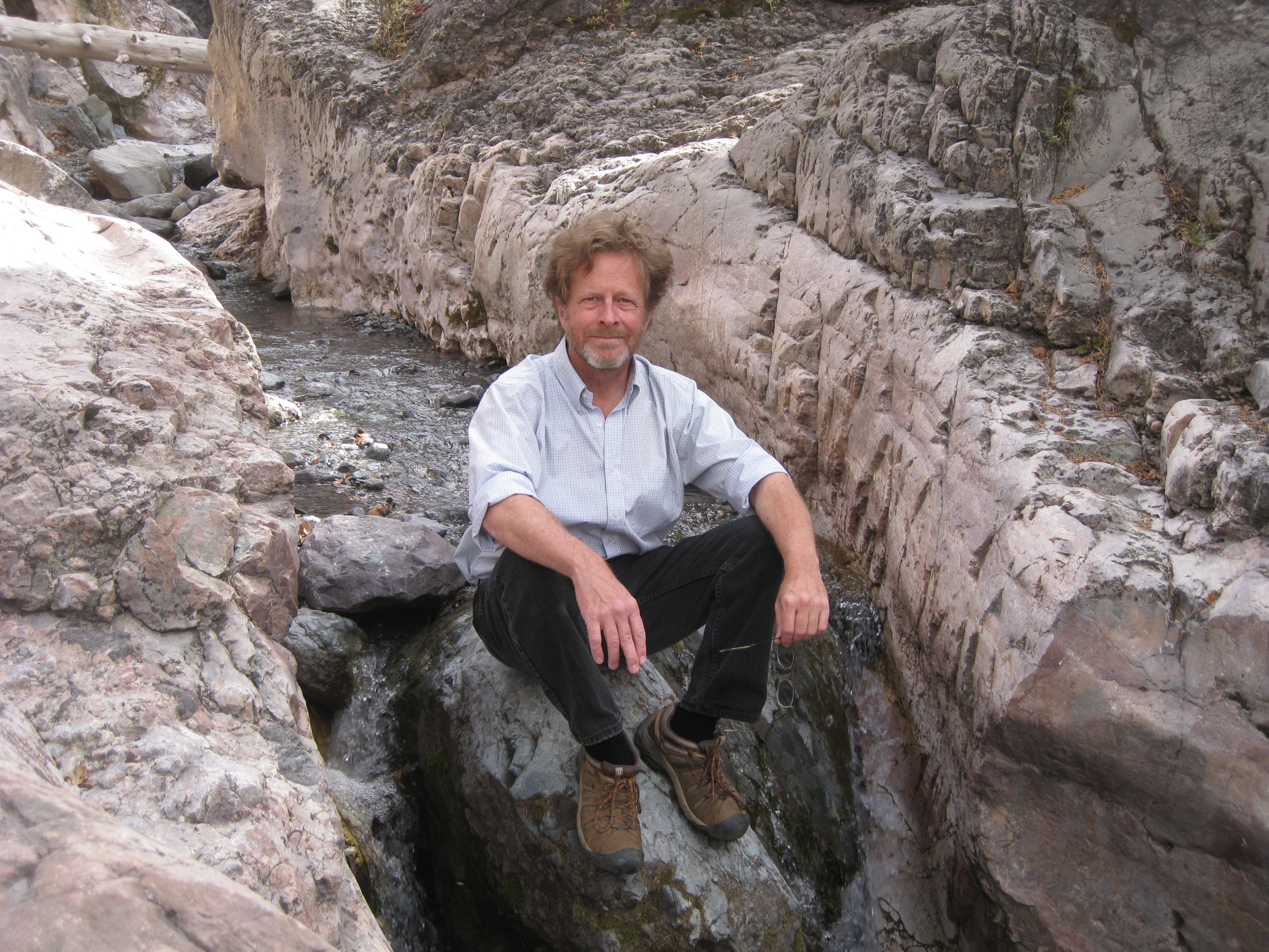 Outdoor photo of David Mason by Christine Mason.